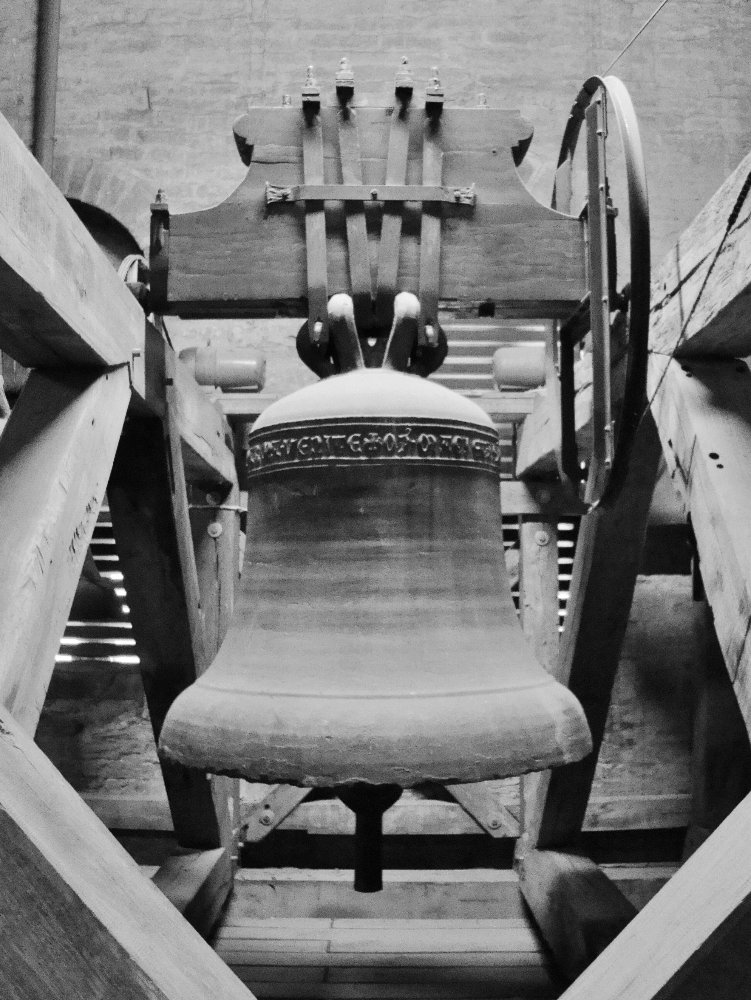 Soest, St Patroklus: storm bell, 13th century